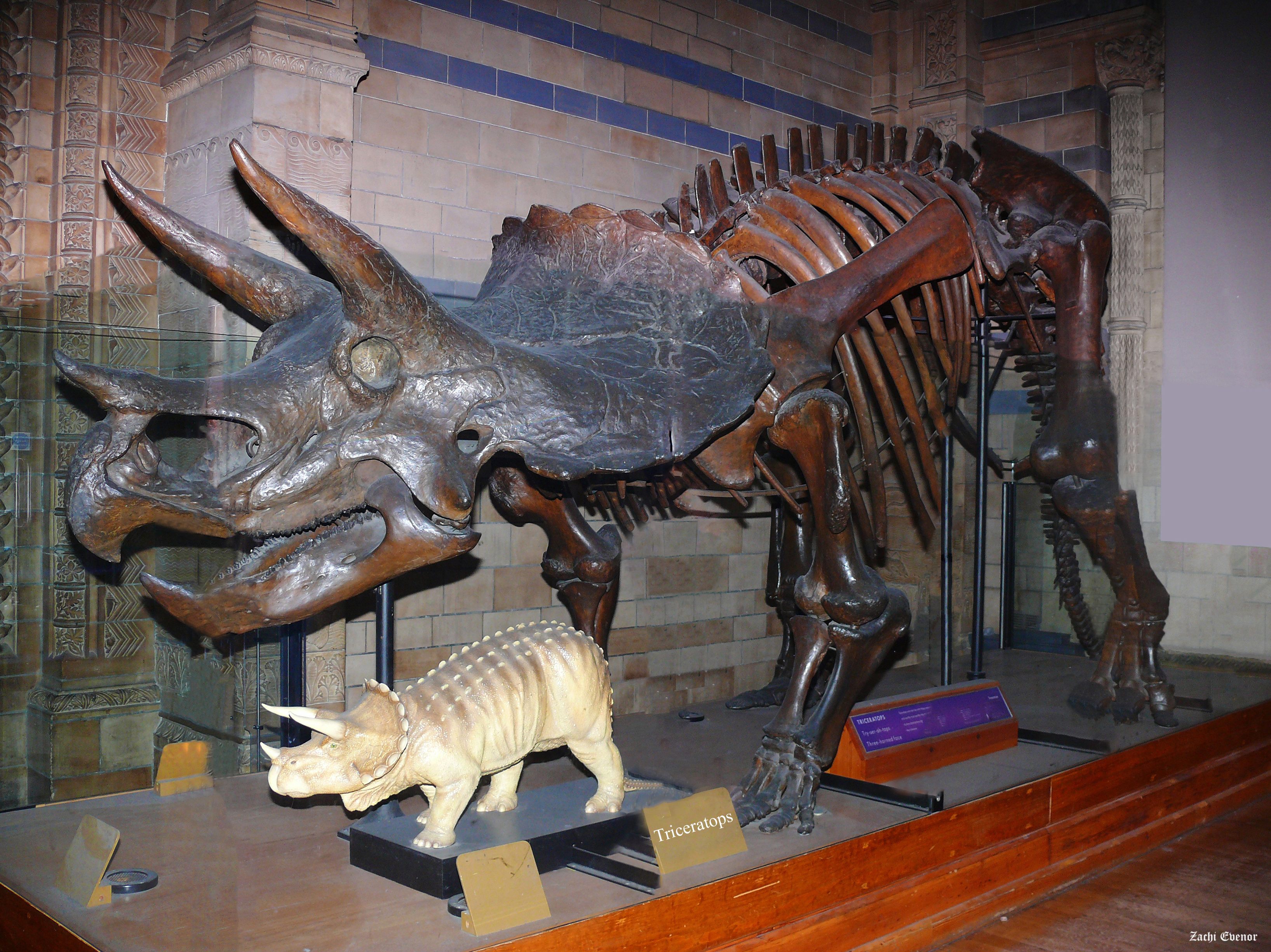 Triceratops skeleton at London Natural History Museum. This is not a cast, but a papier mâché model.[1]